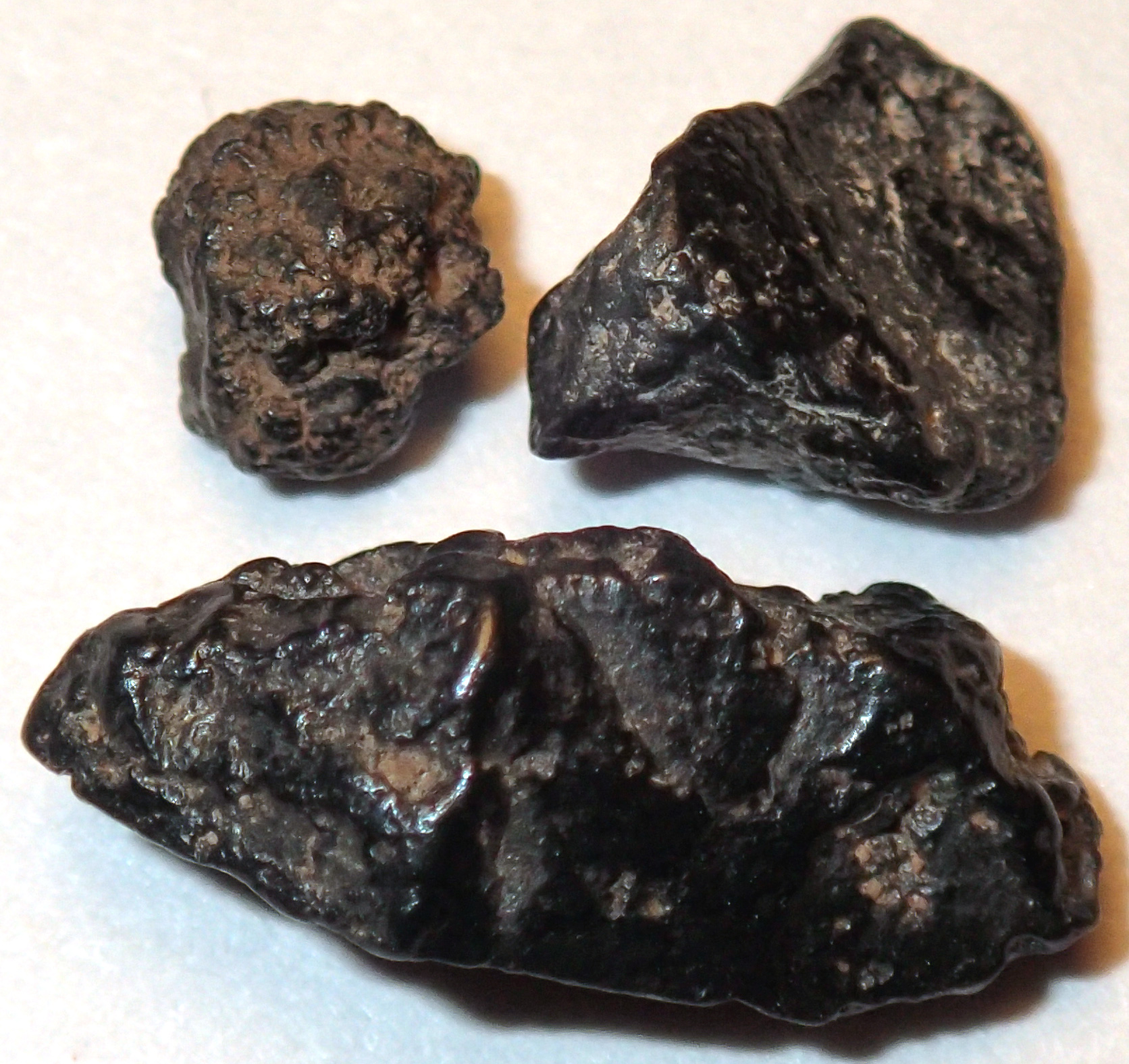 Merumite (largest specimen's long axis is 8.5 mm across) from Director Creek in northwestern Guyana (British Guiana), northern South America. Merumite is the "rarest rock on Earth". It only occurs as small, loose alluvial grains in the upper branches of Director Creek in northwestern Guyana (= northern South America). Merumite rocks are finely crystalline mixes of chromium minerals of inferred hydrothermal origin. The principal minerals in merumite are eskolaite (Cr2O3), guyanaite (CrO·OH), bracewellite (CrO·OH), grimaldiite (CrO·OH), mcconellite (CuCrO2), chromian pyrophyllite, and quartz. Trace minerals include chromium gahnite (Zn(Al0.7Cr0.3)2O4) and native gold (Au). The geologic provenance of merumite rocks is uncertain, but they are possibly derived from the Roraima Formation, a Paleozoic? succession of coarse-grained siliciclastic sedimentary rocks and volcanic ash beds. The Roraima Formation is now eroded away in the Director Creek area. Locality: loose alluvial grains in the upper branches of Director Creek (a small tributary of the Merume River) (possibly from a 3 to 4.5 meter wide & 3 kilometer long stretch of Director Creek along the eastern base of Robello Ridge), north of the Pakaraima Plateau/Karanang Mountains, ~16 km southwest of Kamakusa, northwestern Guyana (British Guiana), northern South America. Info. synthesized from: Milton et al. (1976) - Merumite - a complex assemblage of chromium minerals from Guyana. United States Geological Survey Professional Paper 887. 29 pp. 6 pls.